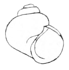 Drawing of apertural view of the shell of Clappia umbilicata